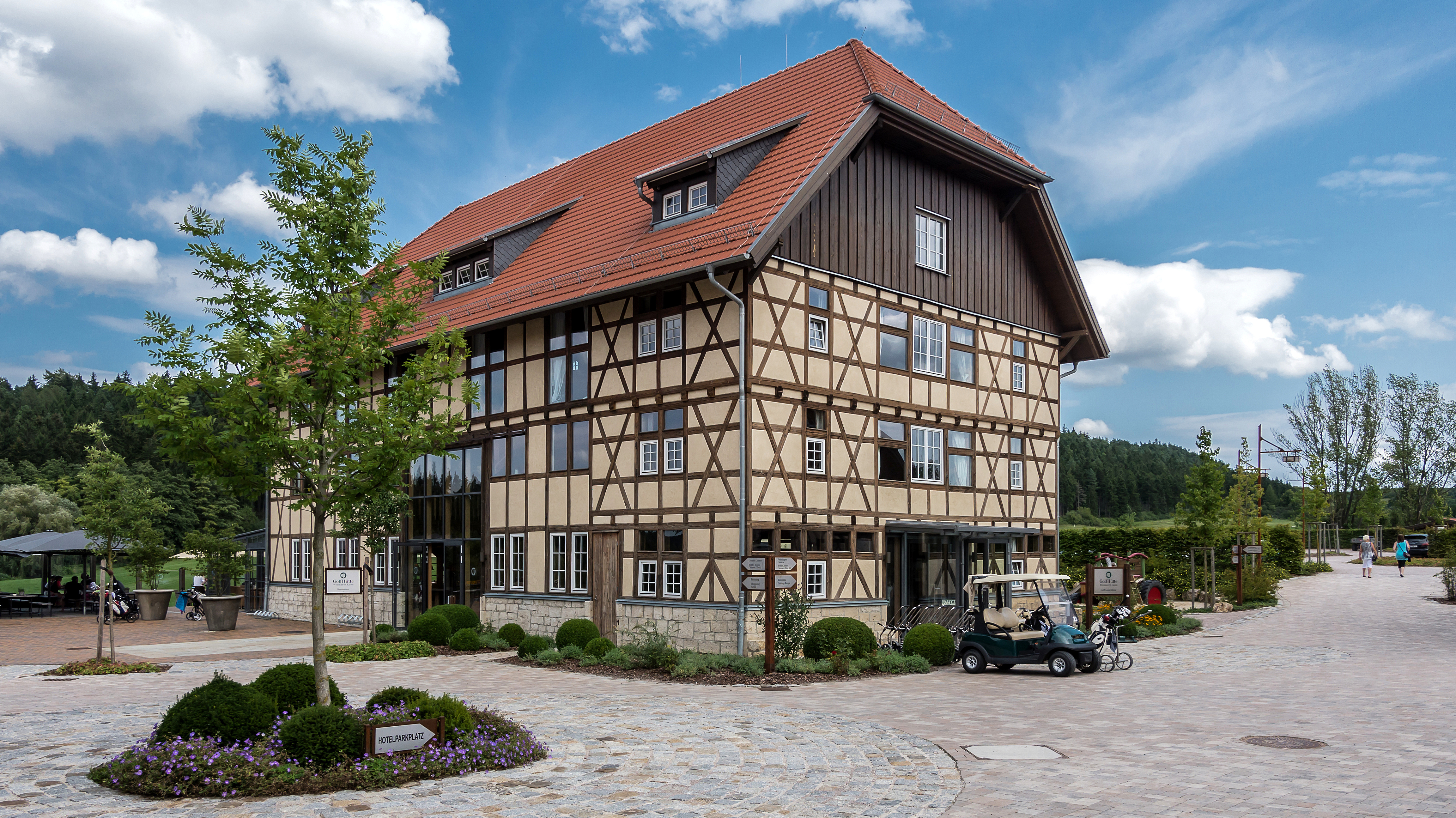 Blankenhain Karl-Liebknecht-Straße 34 Gut Krakau